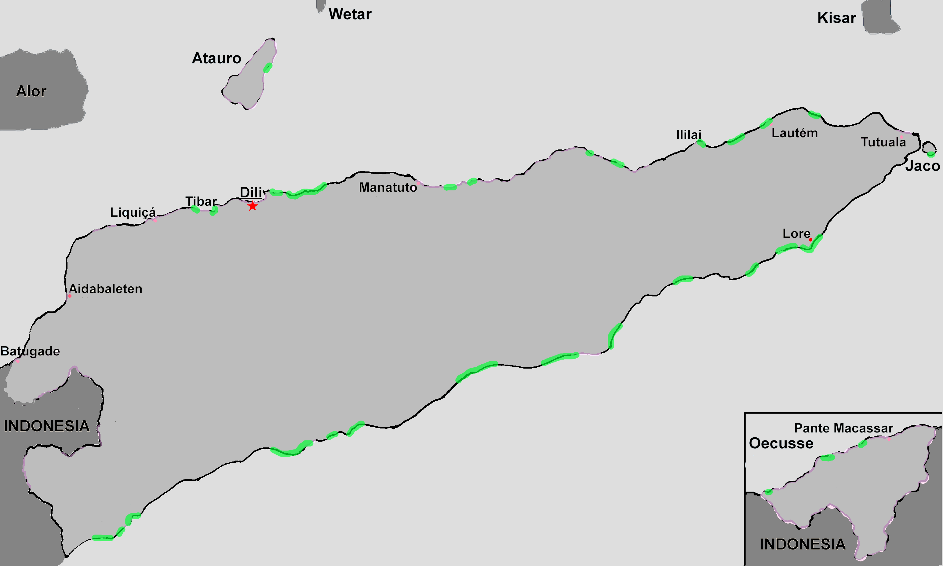 Mangroves in East Timor